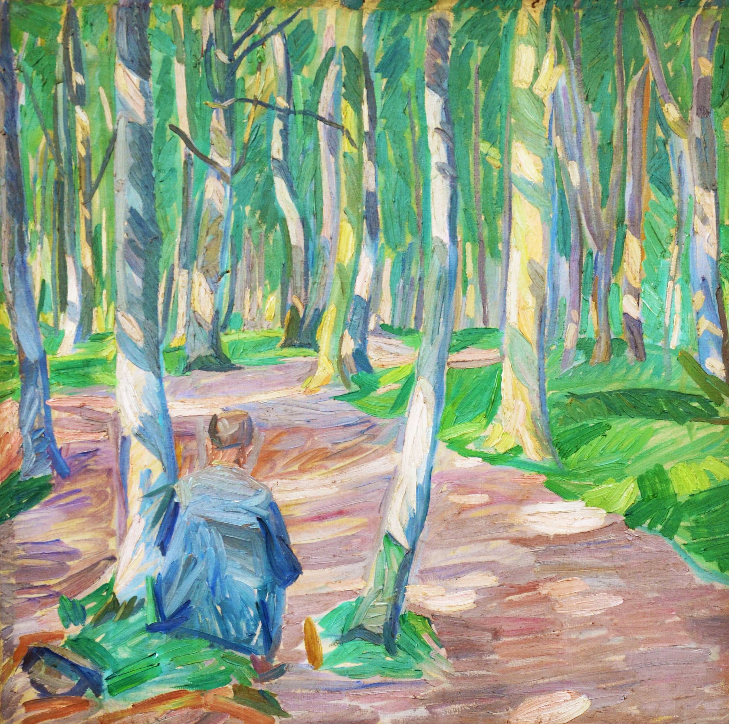 The danish artist Edvard Weie painted this during the period he was treated for dementia praecox, in 1914. It marks a turning point in Weies work: the motive is dissolved into monochrome areas on the canvas. And yet the tree trunks and forest floor are bathed in shimmering sunlight, giving the rich impression of space and perspective.